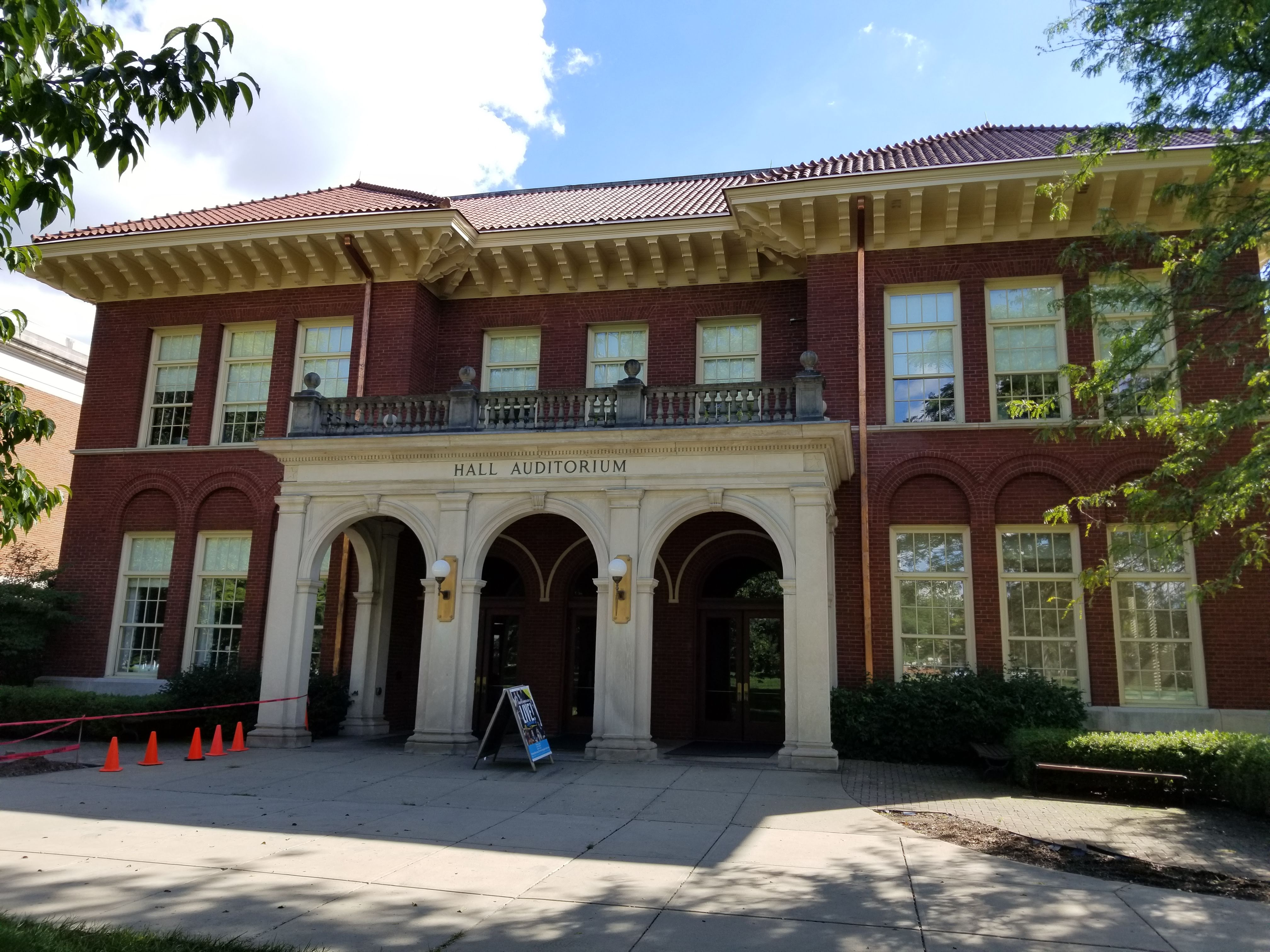 A view of Hall Auditorium's facade, September 2018.